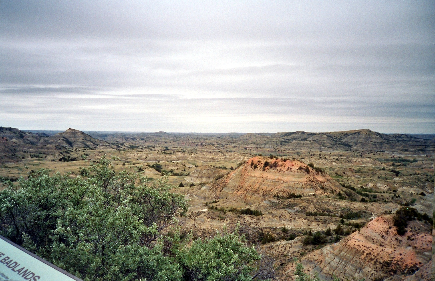 Theodor Roosevelt Mational Park South Unit